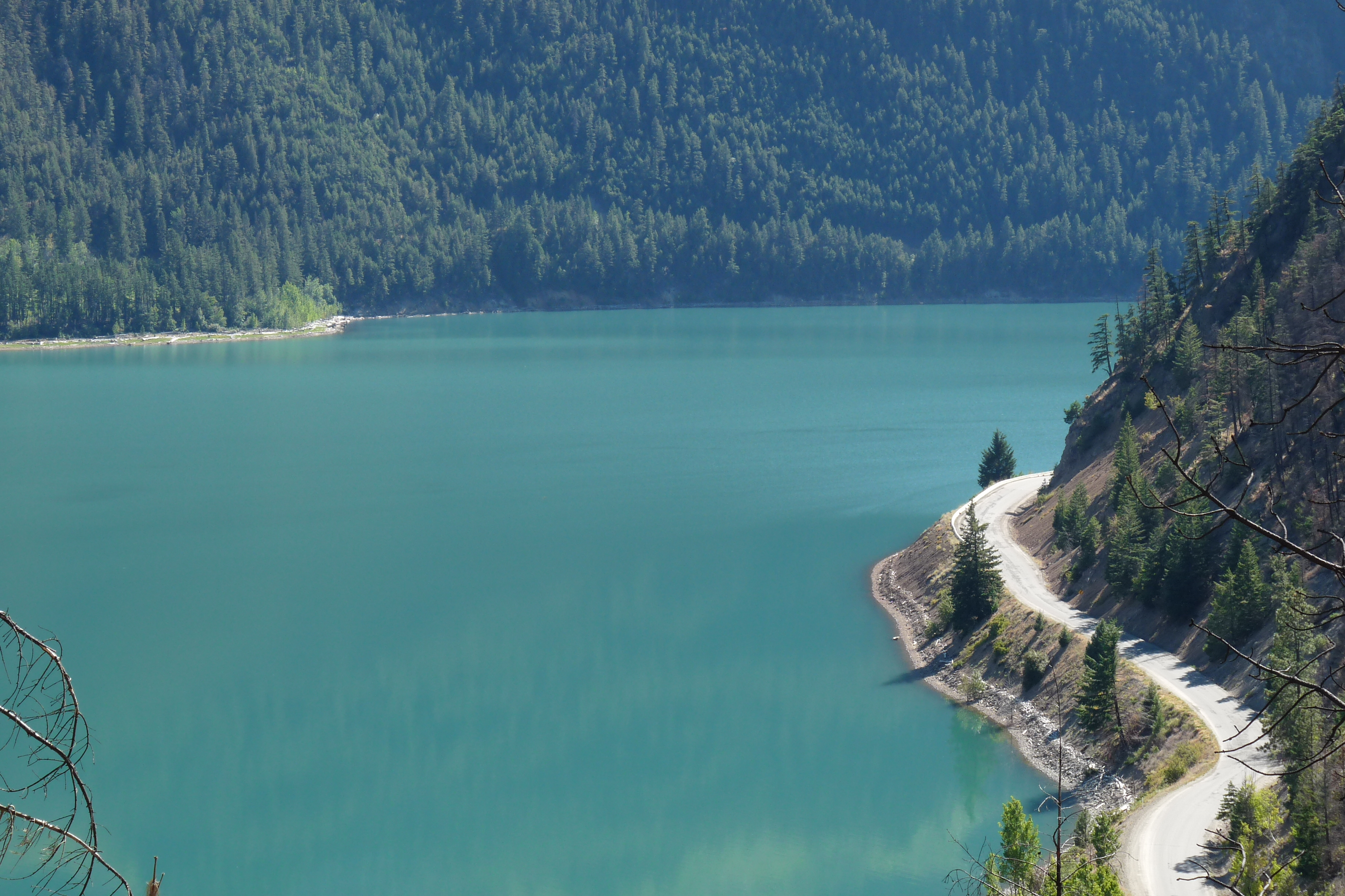 Carpenter Lake and the road that hugs its shore (the only year-round route in and out of the Bridge River Valley)